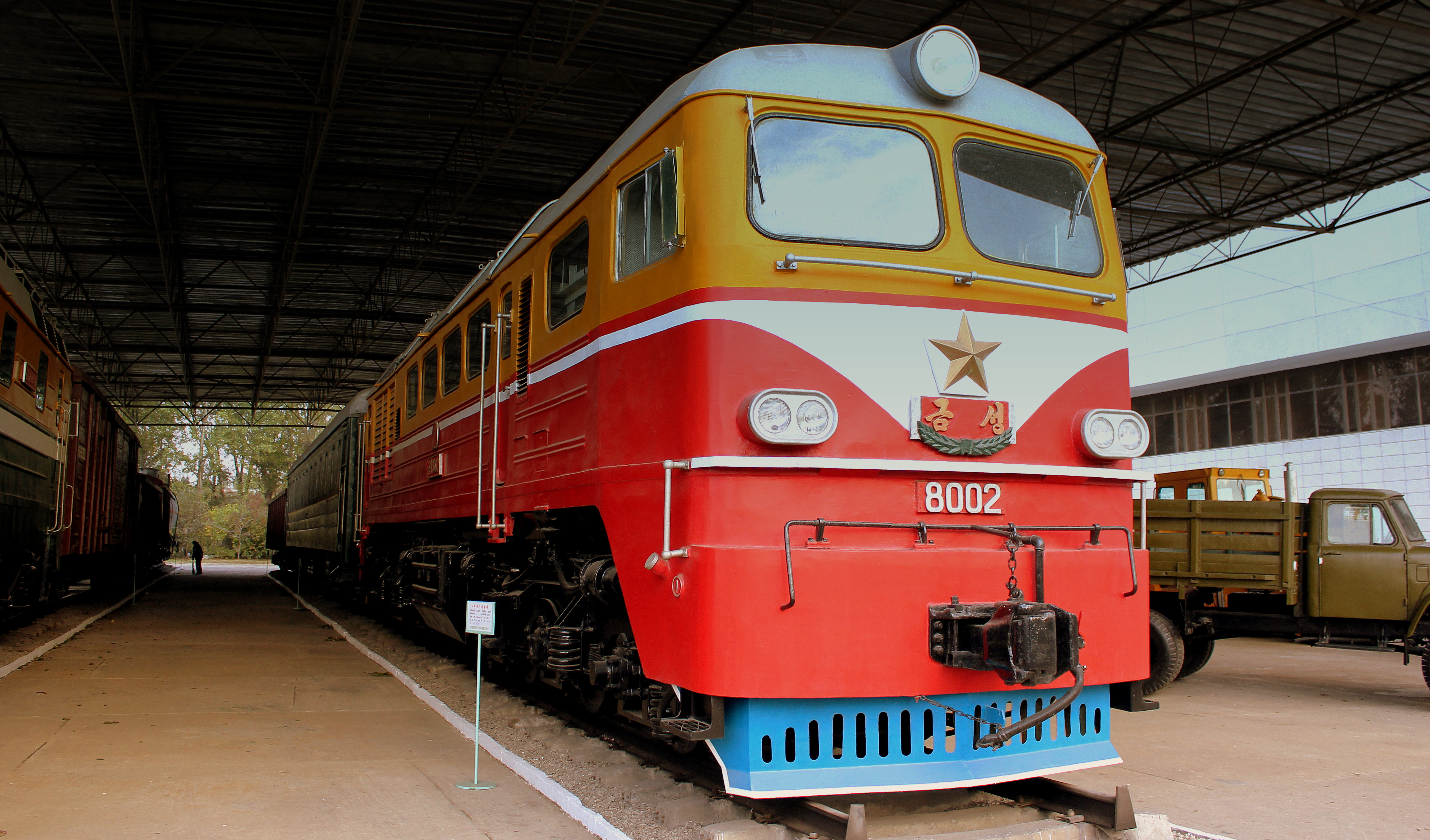 I THINK THESE ENGINES WERE RUSSIAN BIULT.